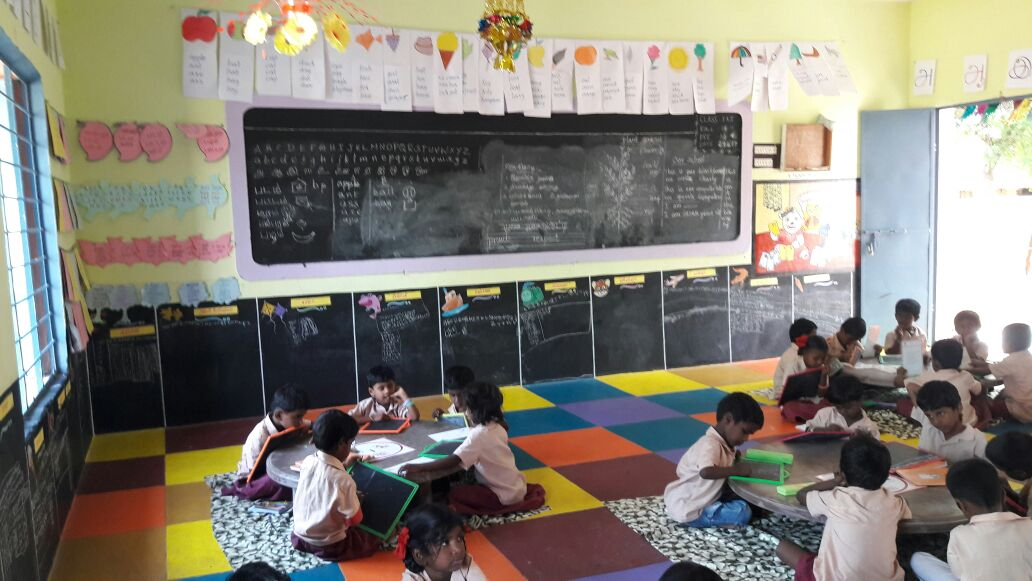 Kuravan kulam classroom